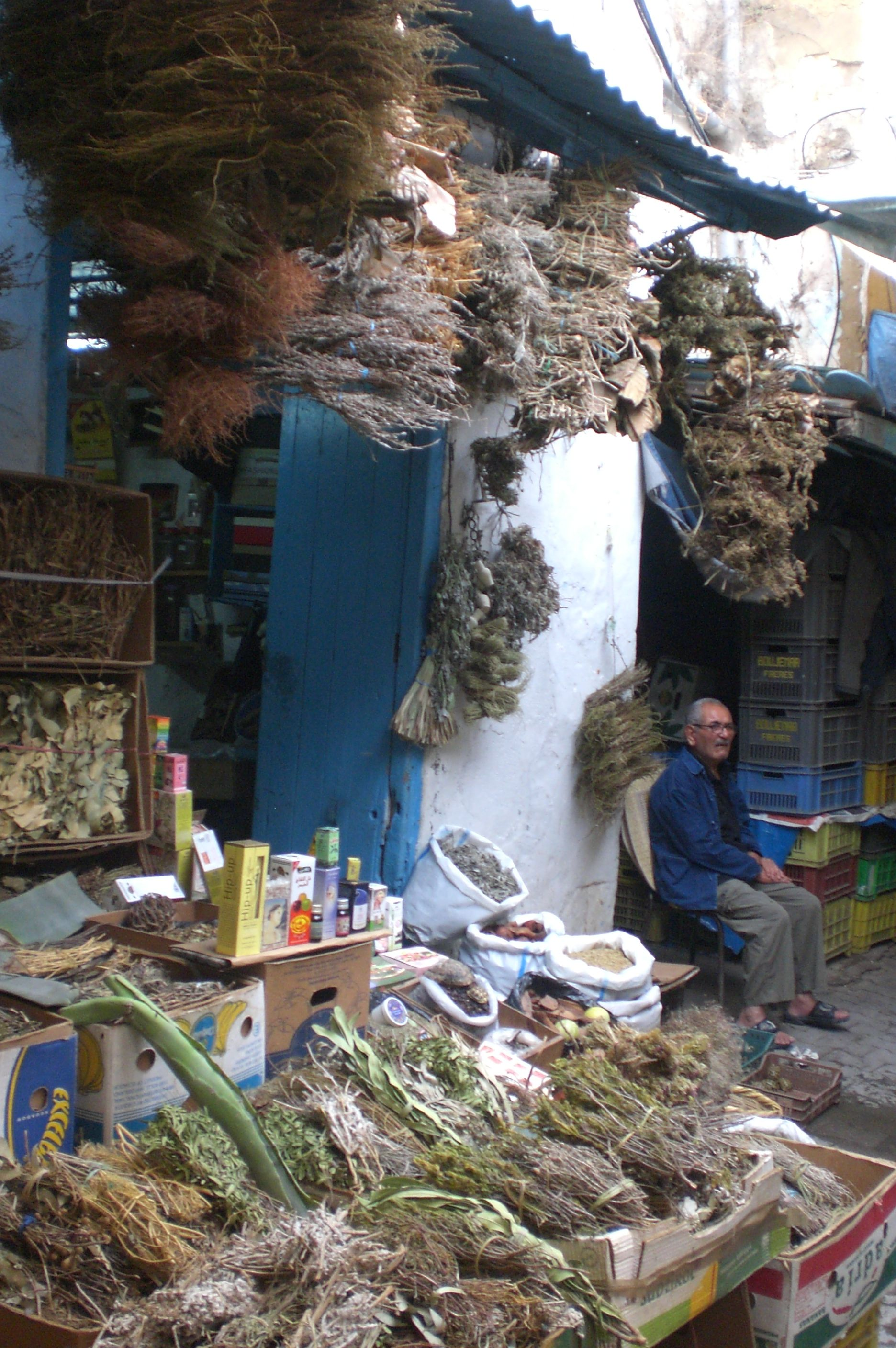 Souk El Blat in Tunis